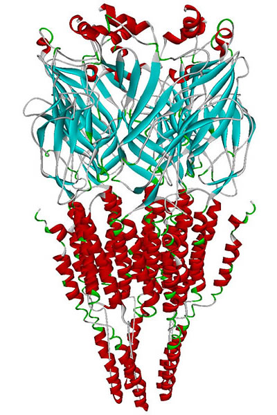 Molecular model of the alpha7 nicotinic receptor. A larger view of this image is available.